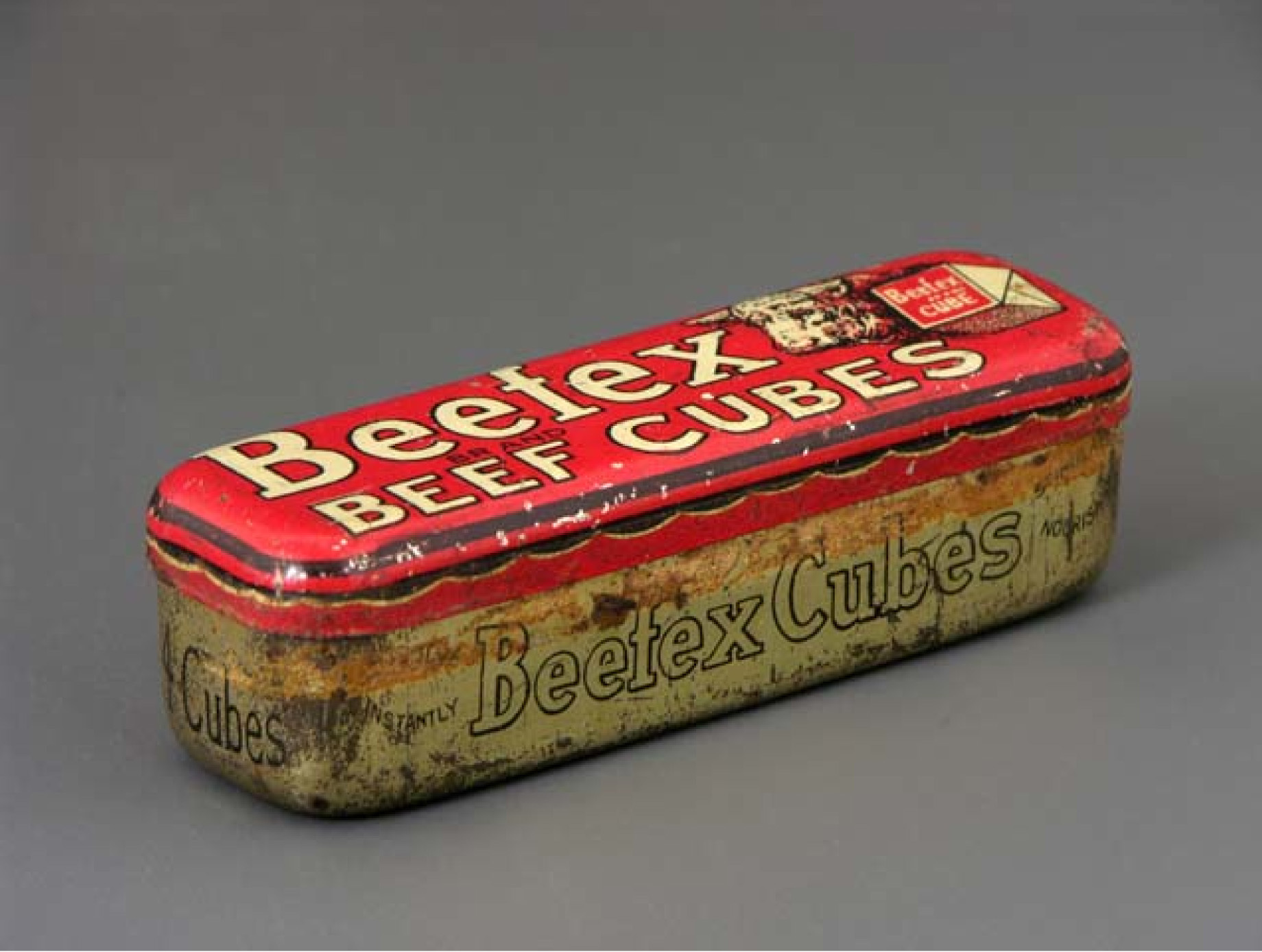 Metal container for Beefex cubes from first half of the 20th century.